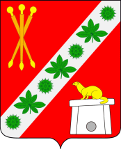 Coat of arms of Veliaminovskoye municipality, Krasnodar, Russia).png